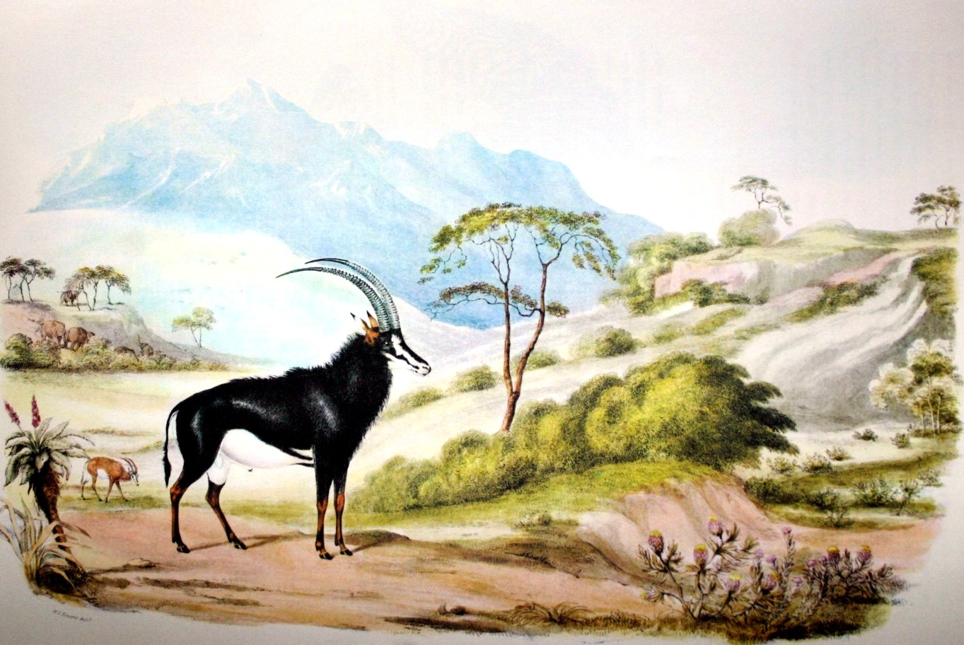 Painting of Sable Antelope by William Cornwallis Harris from "Portraits of the Game and Wild Animals of Southern Africa" by William Cornwallis Harris. Author long deceased.